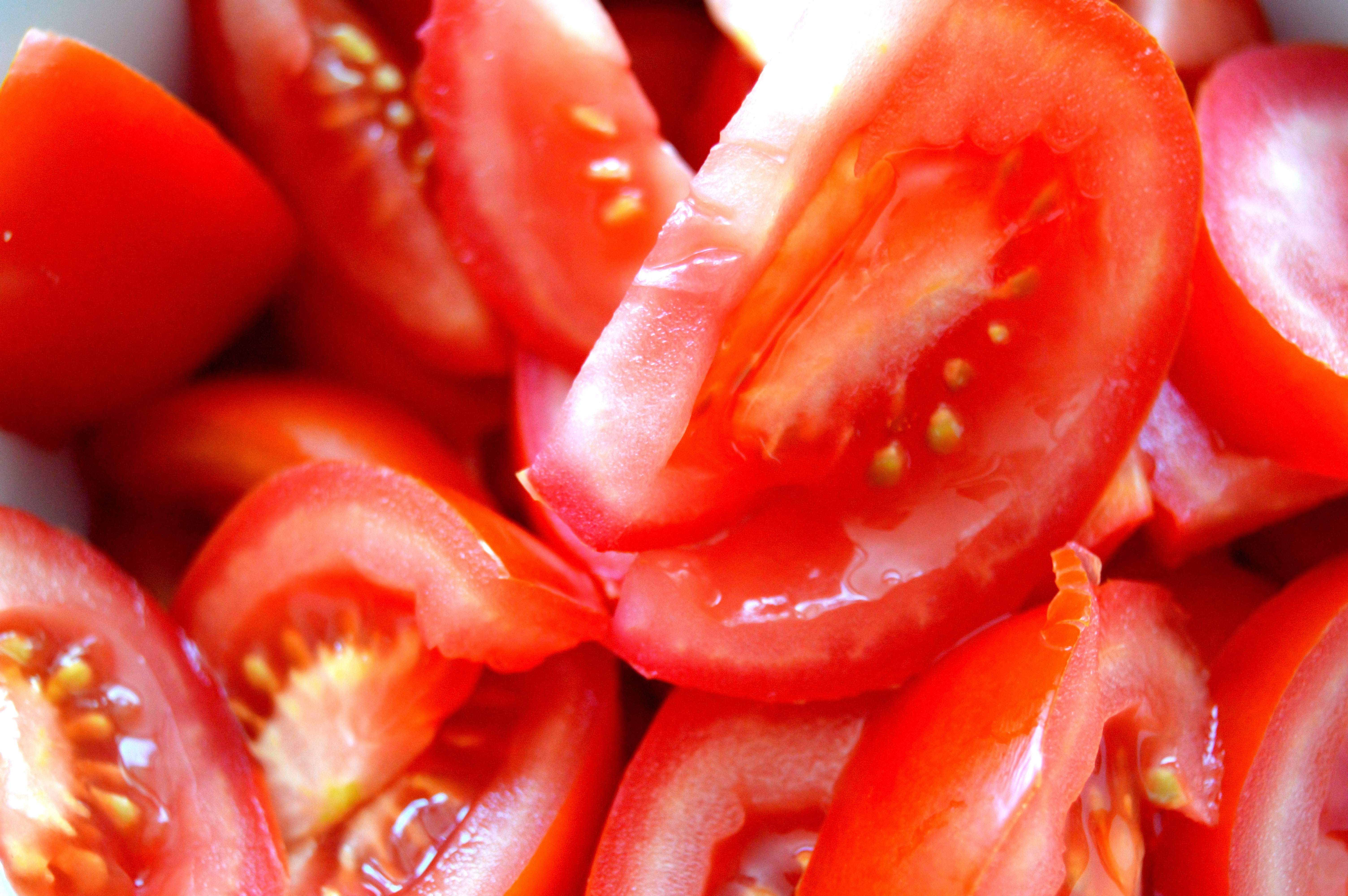 Close-up of sliced tomatoes